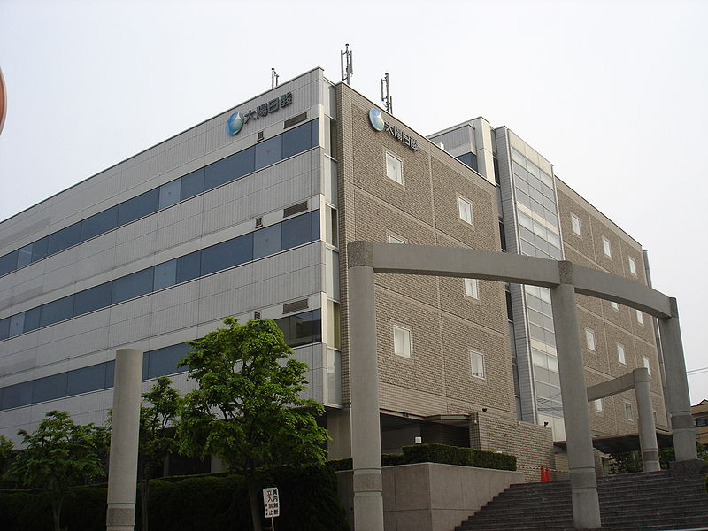 The photo was clicked in Tokyo to show the HQ of TNSC